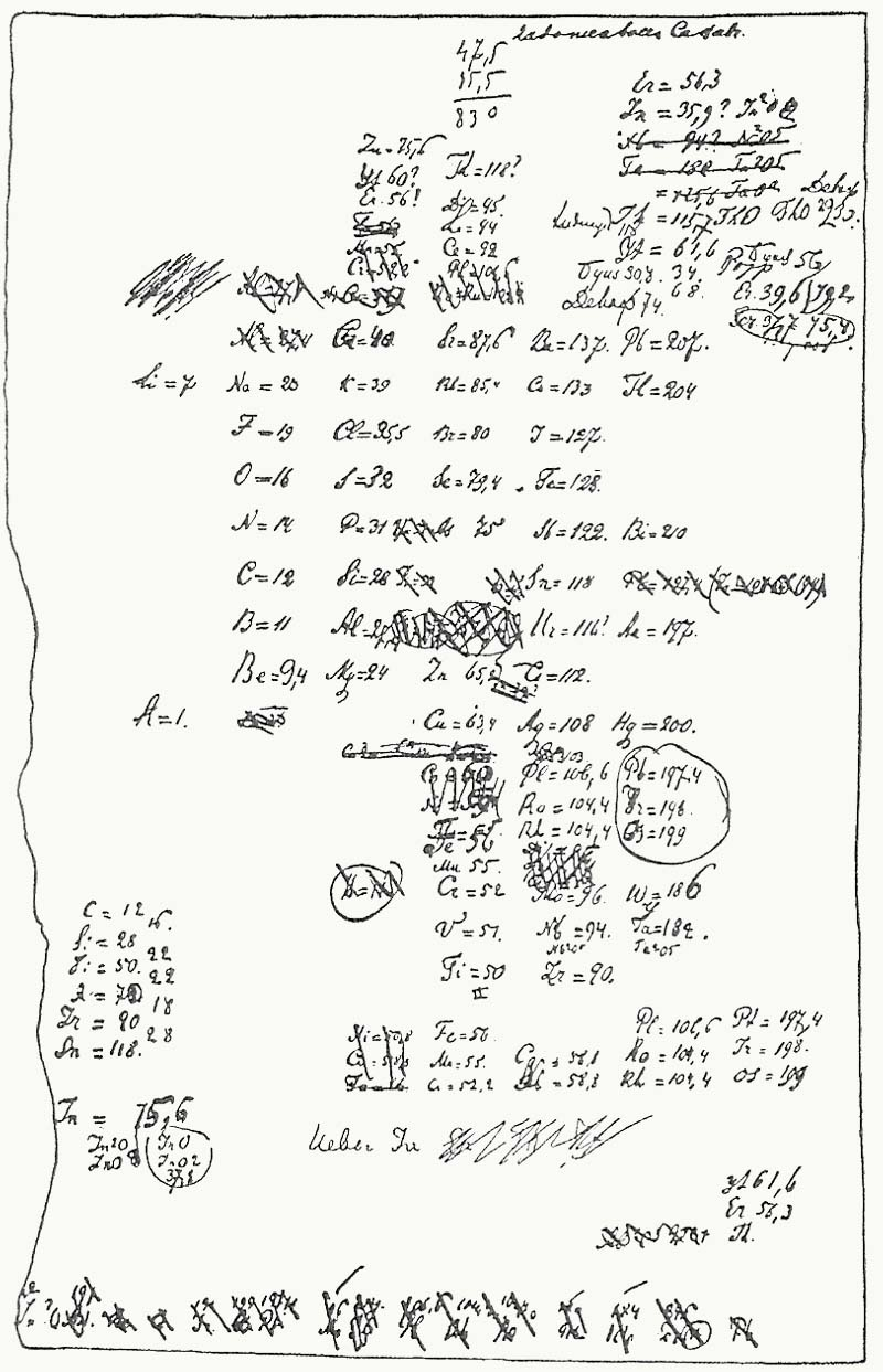 Manuscript draft of the Tabla Periodica Dmitrii Mendeleev